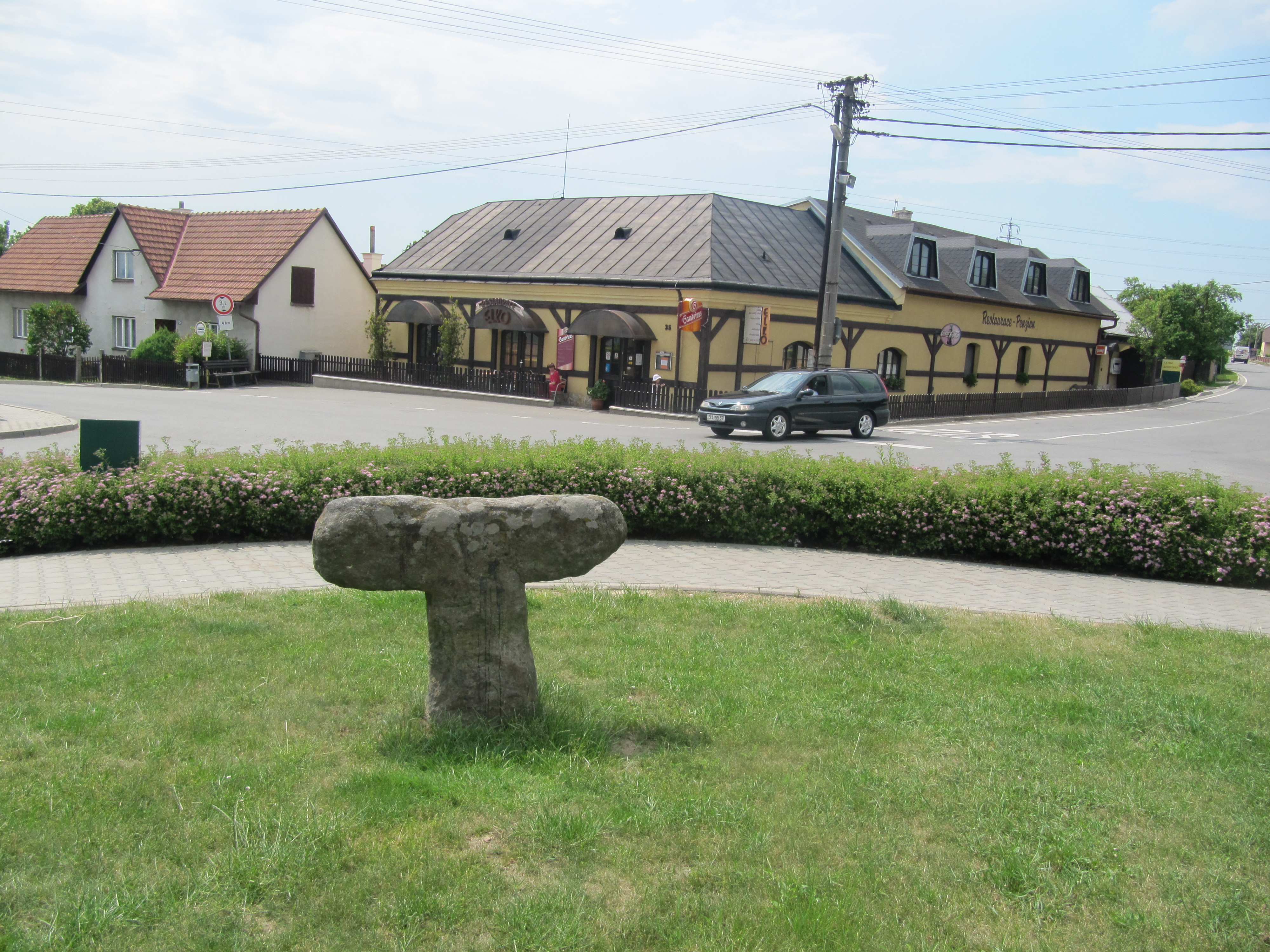 Hvozdná in Zlín District, Czech Republic.Penitence cross and the main crossroad. This photograph was taken within the scope of the third year of the 'Czech Municipalities Photographs' grant.